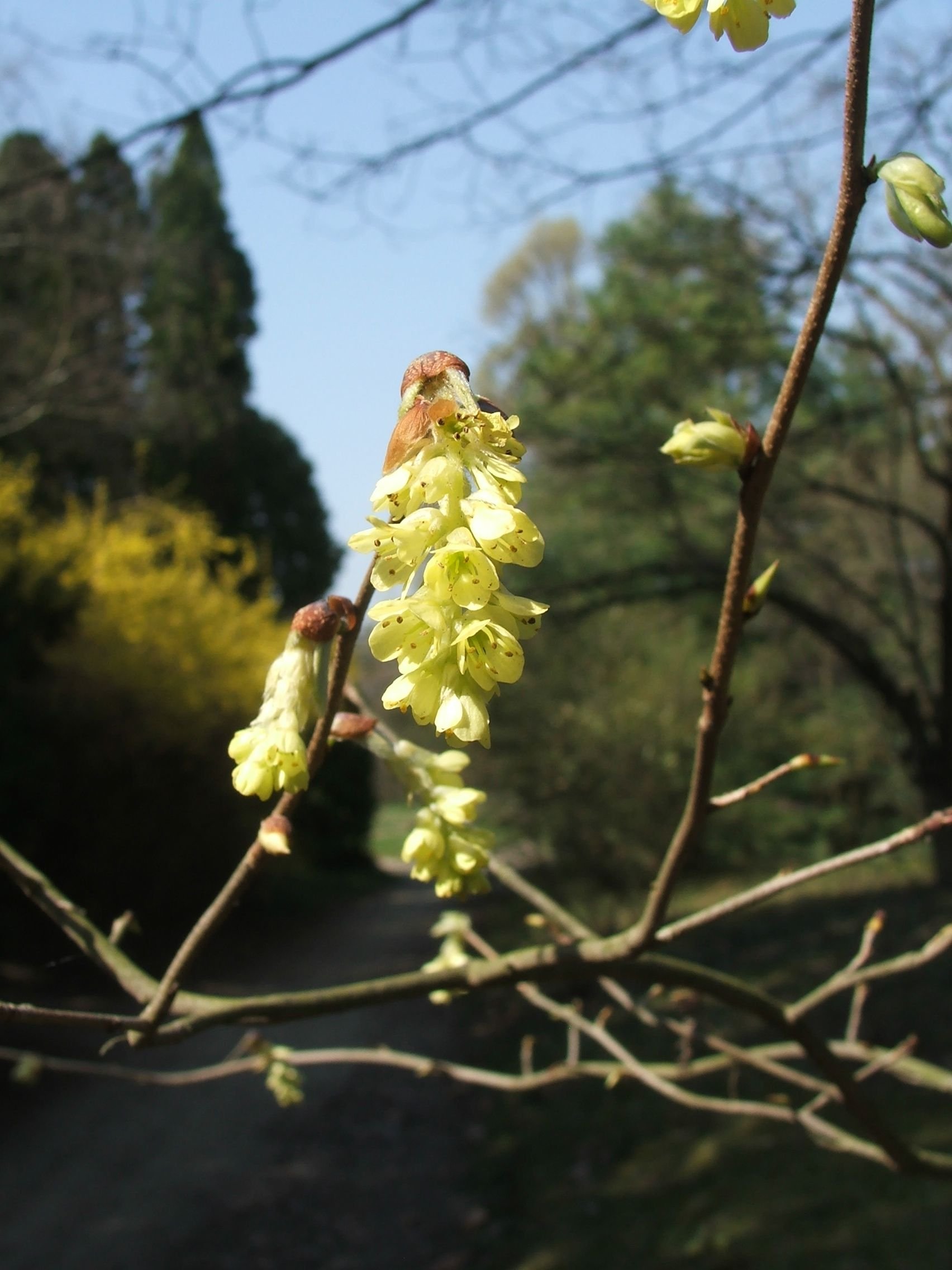 Inflorescence of Corylopsis sinensisvar. glandulifera - MTA Botanic Garden Vácrátót, Hungary.